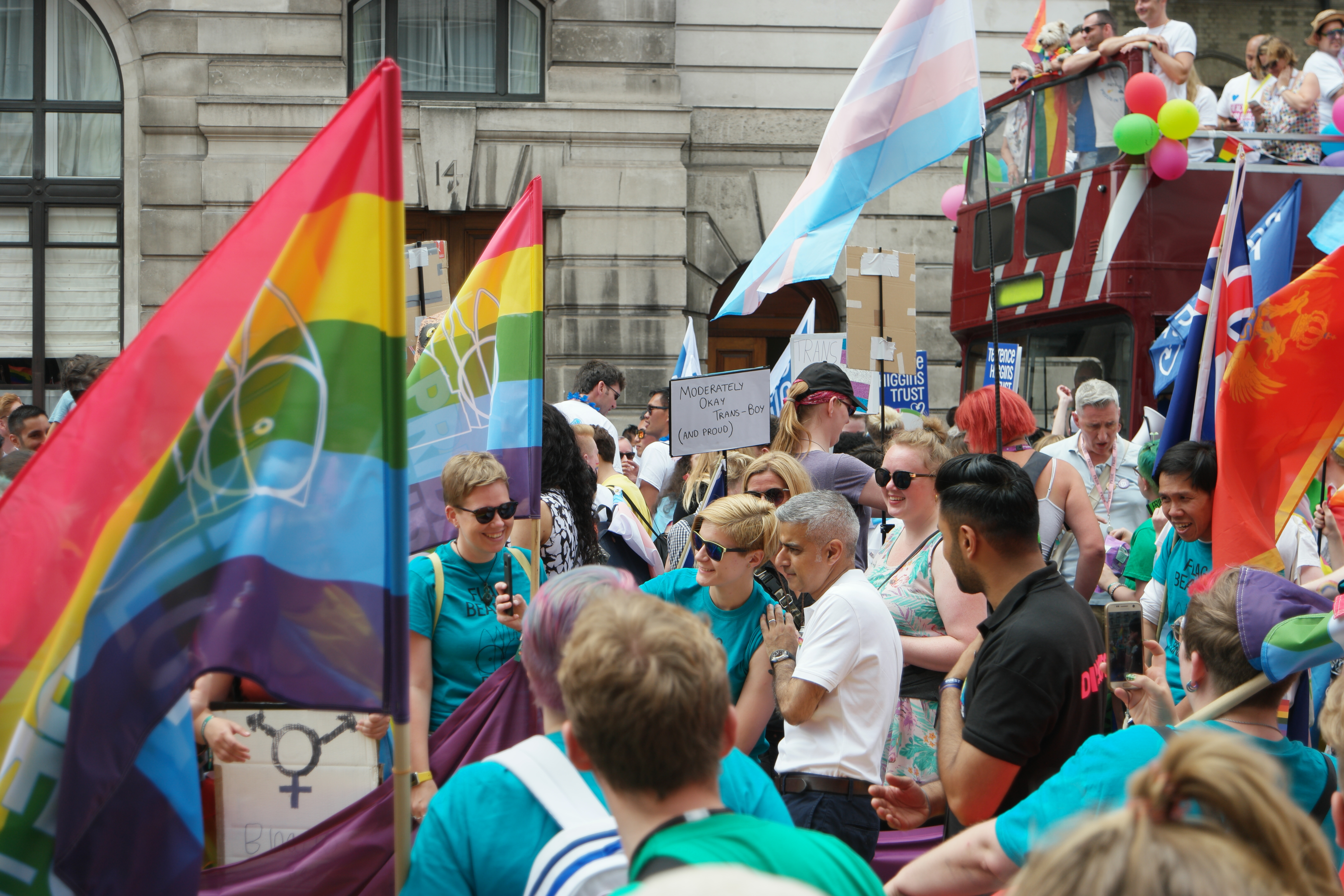 Sadiq Khan at Pride.